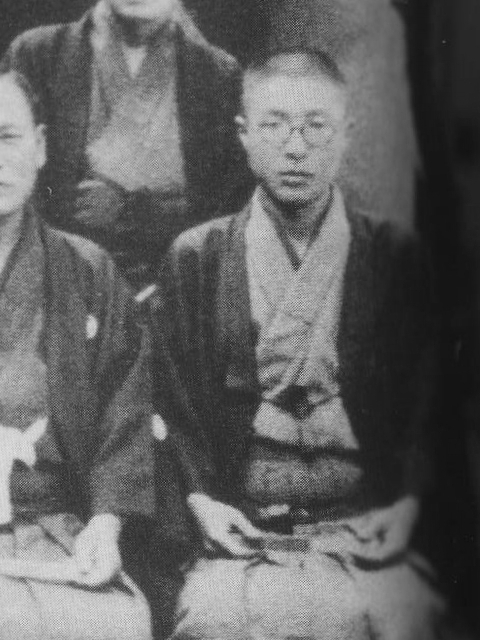 Mitsuo Kakuta (Shogi players). taken in 1939.